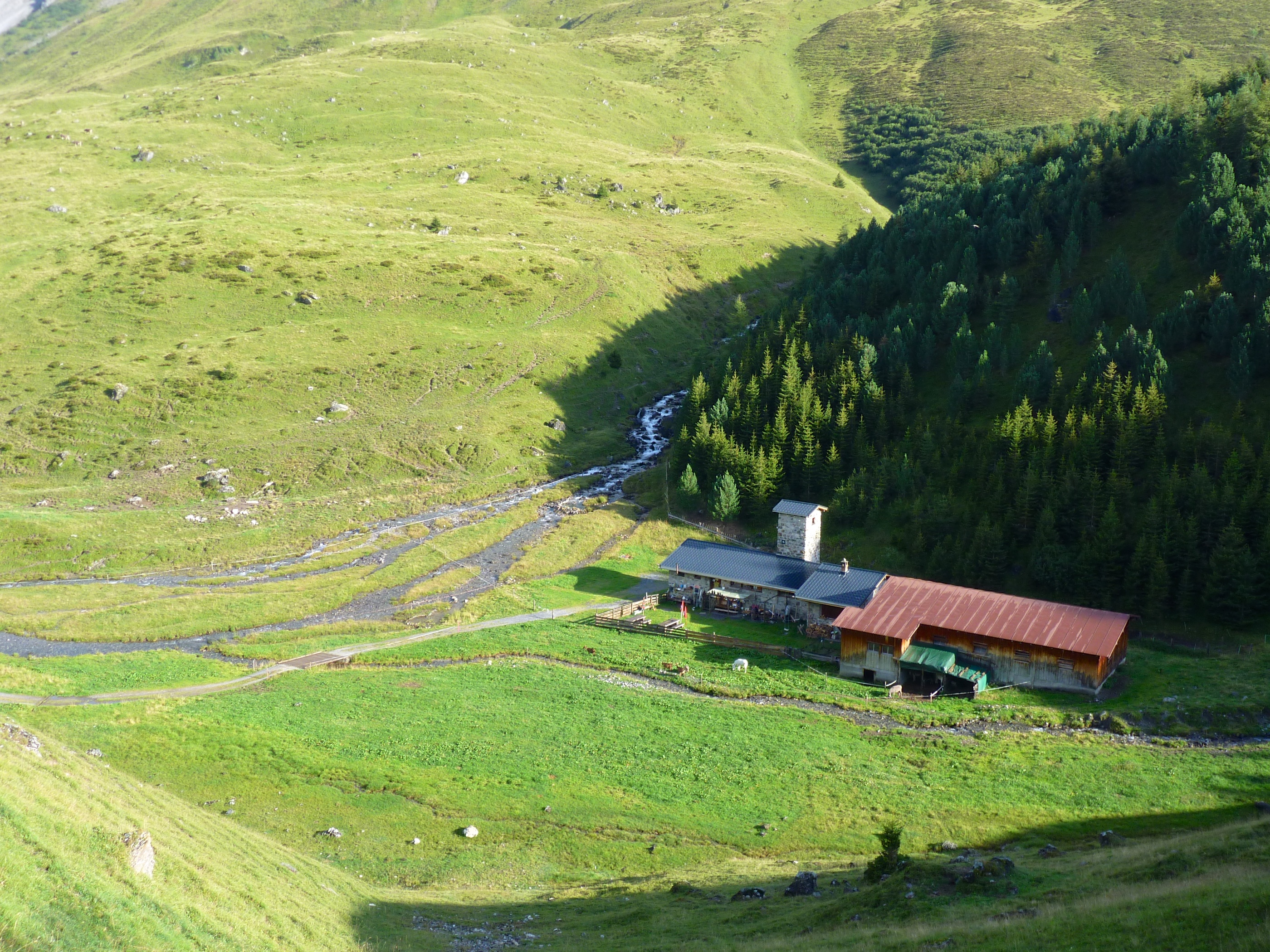 Arosa-Gründji with river Plessur and old valley station of ski and chairlift Hörnli (1945/48-1963)